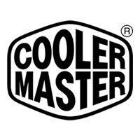 Cooler Master Logo